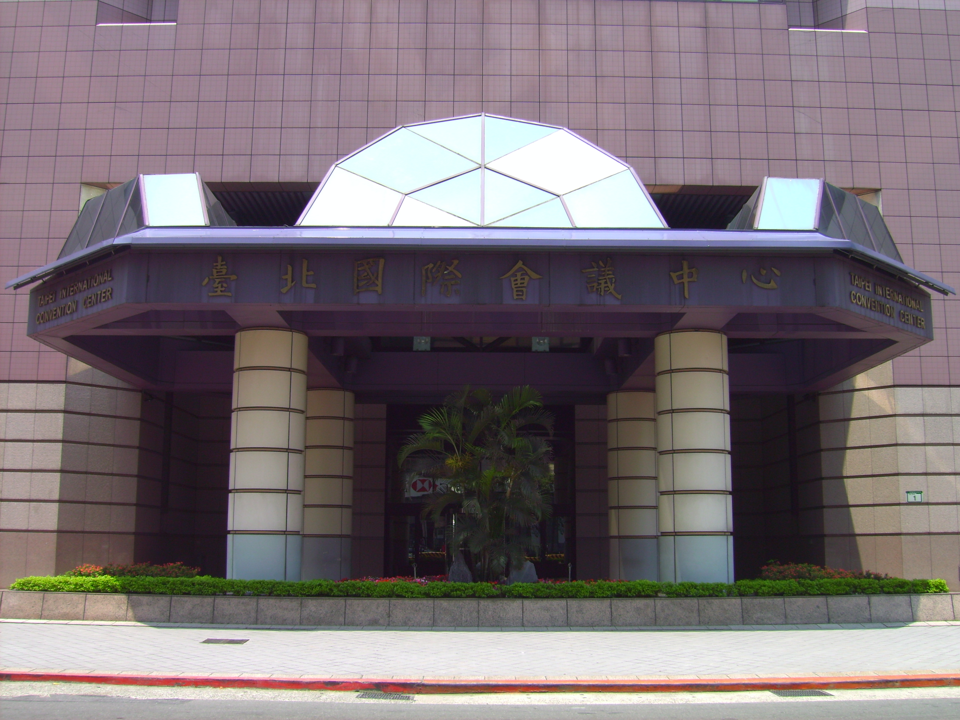 The entrance of Taipei International Convention Center at Xinyi Road, Taipei City isn't the main entrance of TICC, but surely one of landmarks in Taipei World Trade Center.